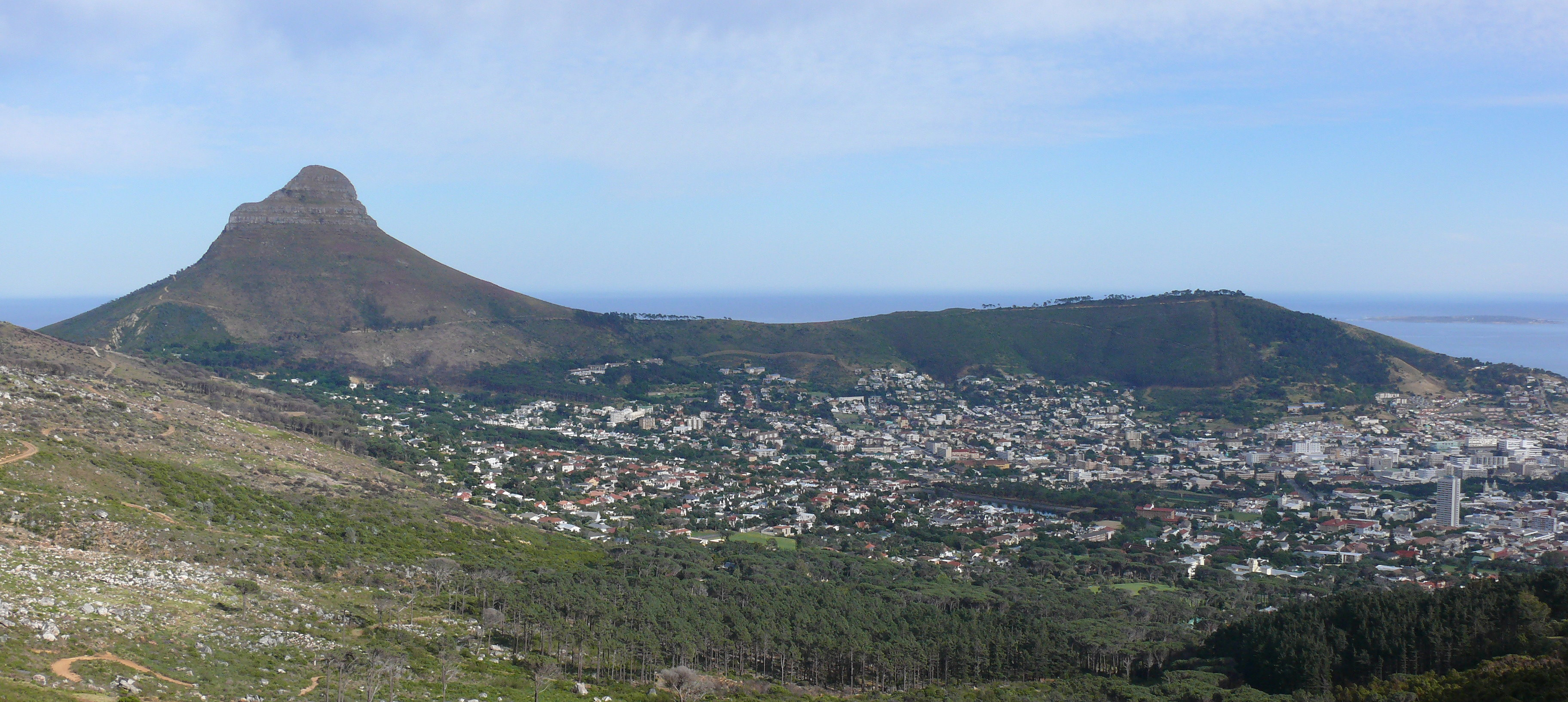 Photo by Hilton Teper